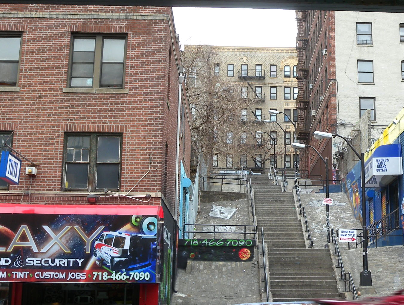 Looking northwest up West Clifford Place, a step street in Morris Heights, Bronx, from underneath the Jerome Avenue El on a cloudy midday.